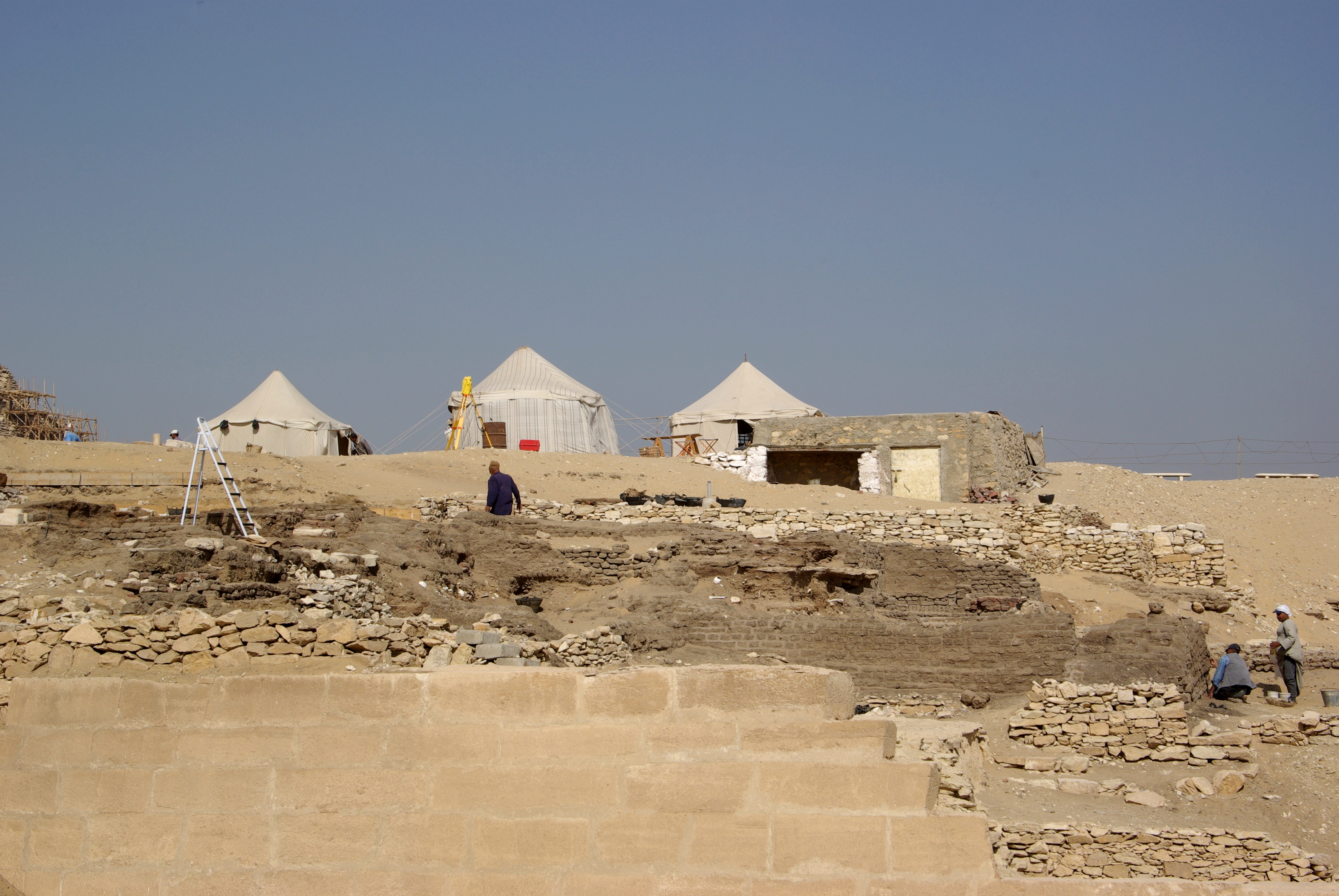 Egypt, Saqqara, archaeological excavation at the Mastaba of Hesy-Ra